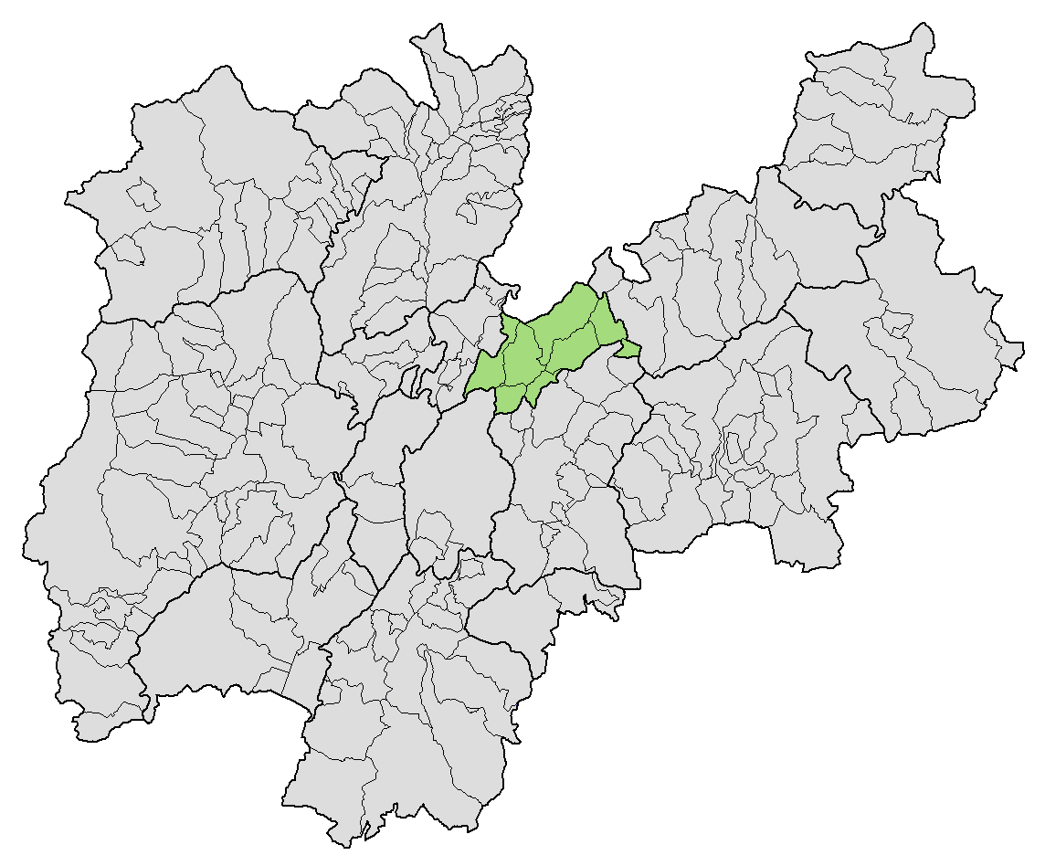 Location map of "Comunità della Valle di Cembra" (5)